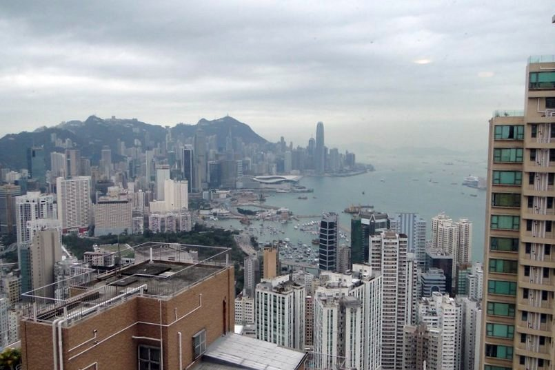 Hong Kong Island